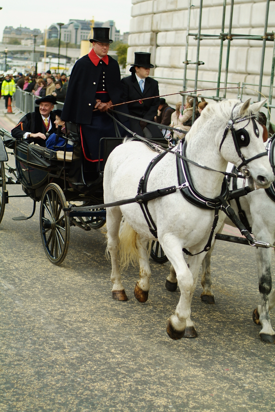 Lord Mayor's Show, London 2006